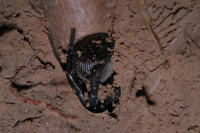 Cyclocosmia sp. in burrow, from Appalachia. Probably Cyclocosmia truncata, based on locality. Dysmorodrepanis 15:52, 20 January 2008 (UTC)